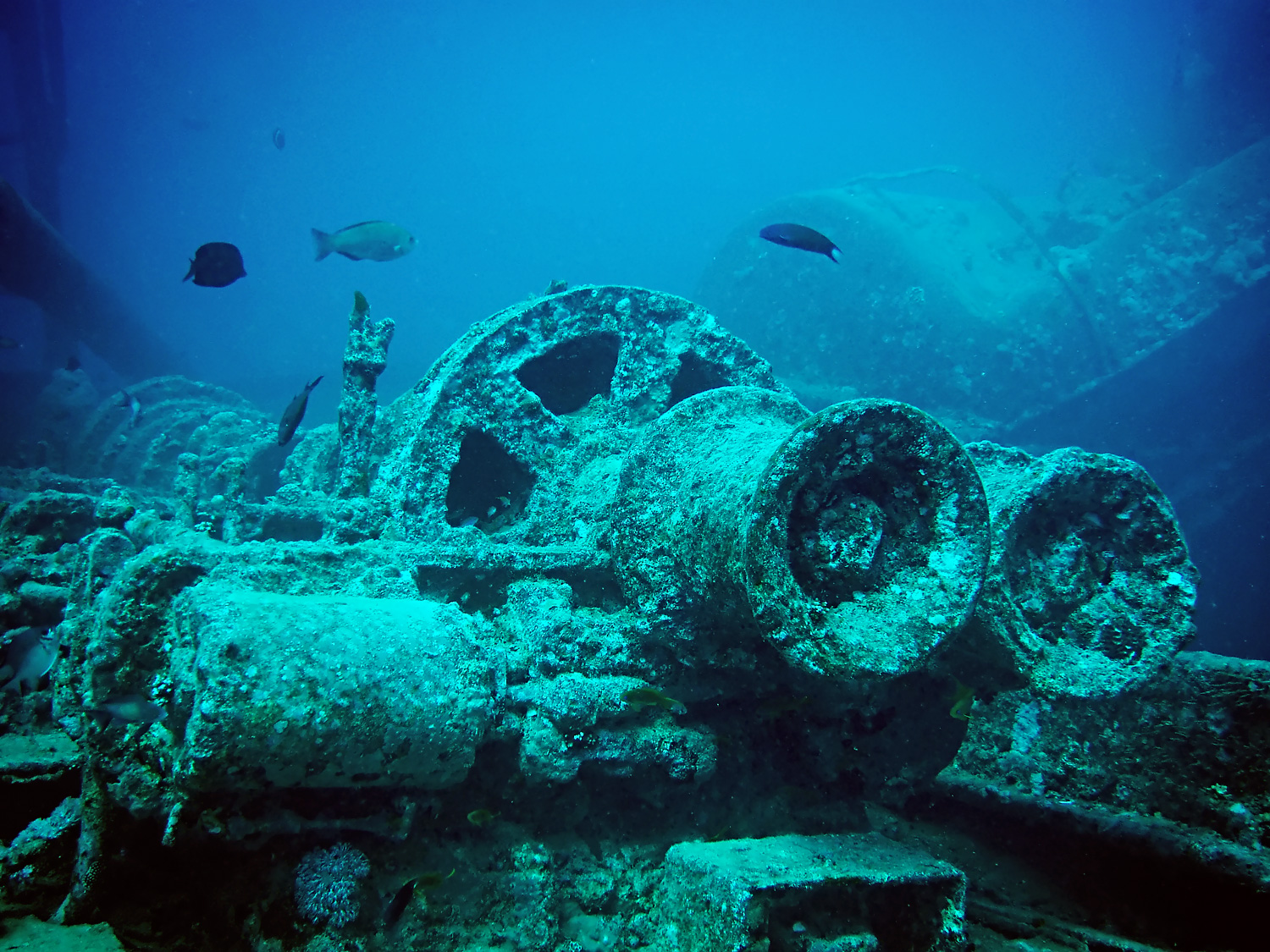 A Winch and associated parts sitting on the deck of the SS Thistlegorm. The Thistlegorm, a transport ship, was sunk by a German bomber, during the Second World War, on 5 October 1941 near Ras Muhammad in the Red Sea. The wreck was originally located by Jacques-Yves Cousteau in 1956, yet only in the last two decades has it become a busy recreational dive site.